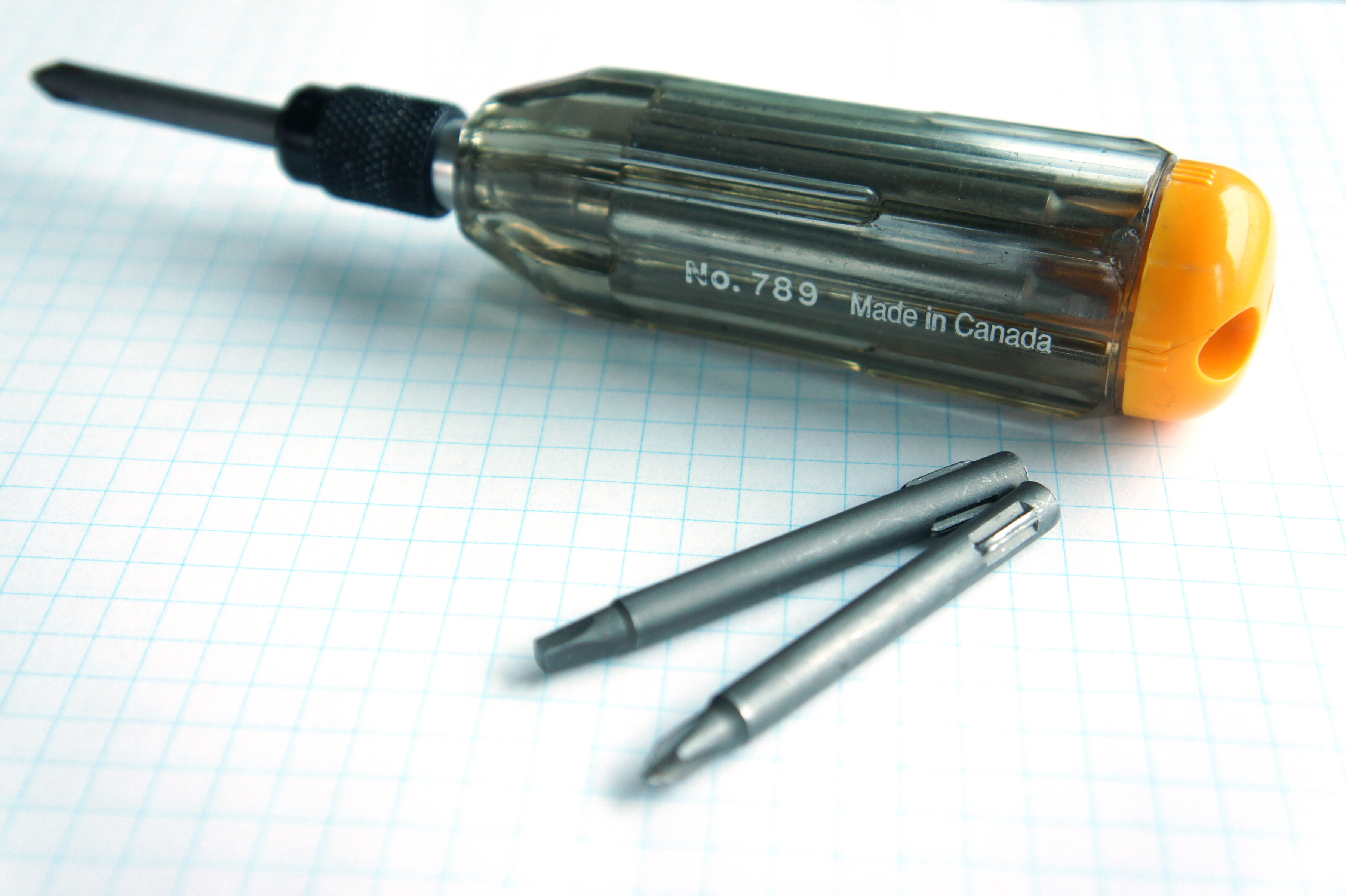 A multi-bit screwdriver